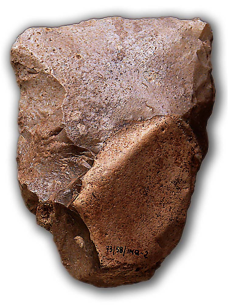 Cleaver-flake type 1 in the classification of J. Tixier (1956 & 1967), acheulean site of Torralba (Soria, Spain)